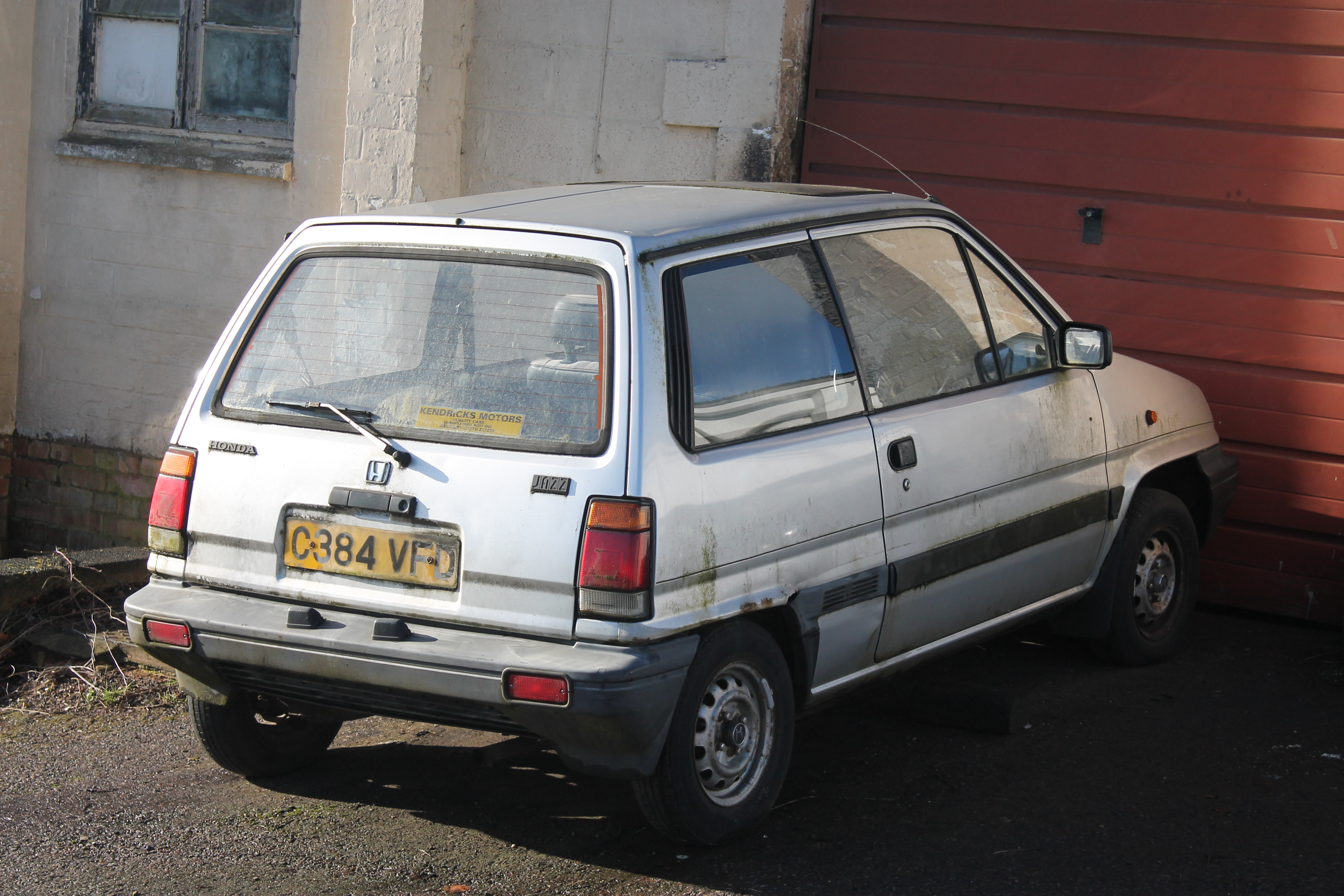 I actually quite like this- I bet they're fun to potter around in. This one's looking a bit sorry for itself. It's probably been off the roads for a few years, although it's currently on SORN. I hope it can make it back to the roads, as these have become rare. There are 6 Jazzes from 1985 licensed, and this is one of 4 on SORN. The vehicle details for C384 VFD are: Date of First Registration 01 08 1985 Year of Manufacture 1985 Cylinder Capacity (cc) 1231cc CO₂ Emissions Not Available Fuel Type PETROL Export Marker N Vehicle Status SORN in place Vehicle Colour SILVER Vehicle Type Approval Not Available